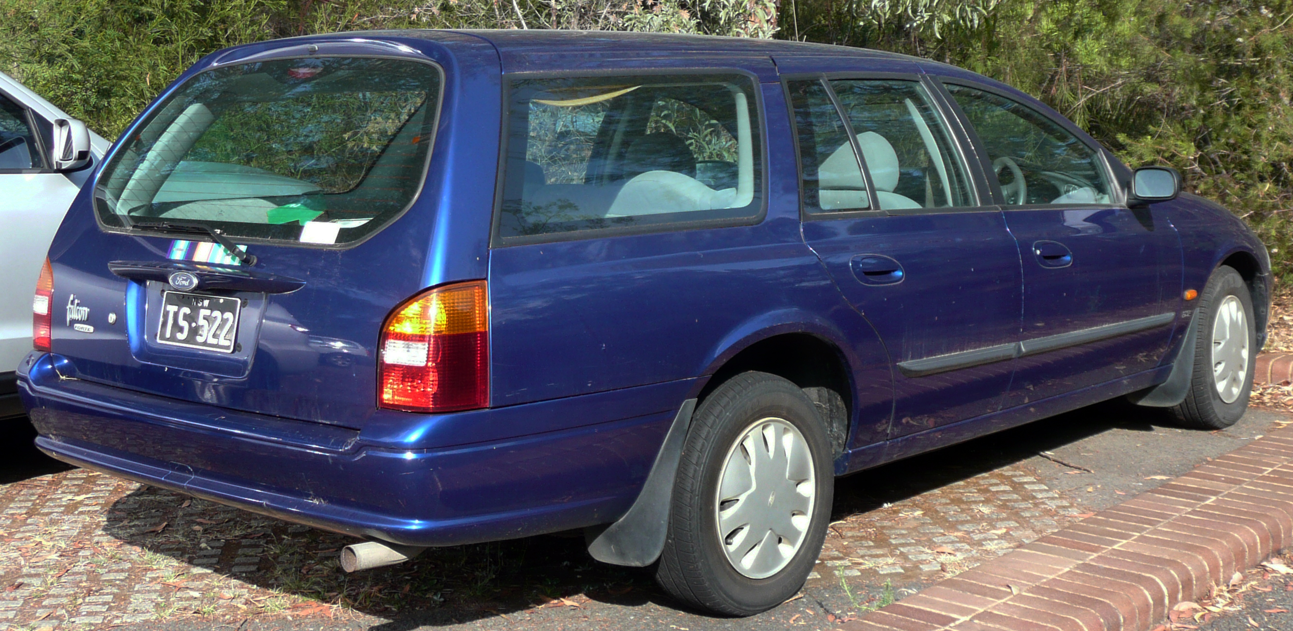 1998–2000 Ford Falcon (AU) Forté station wagon. Photographed in Audley, New South Wales, Australia.